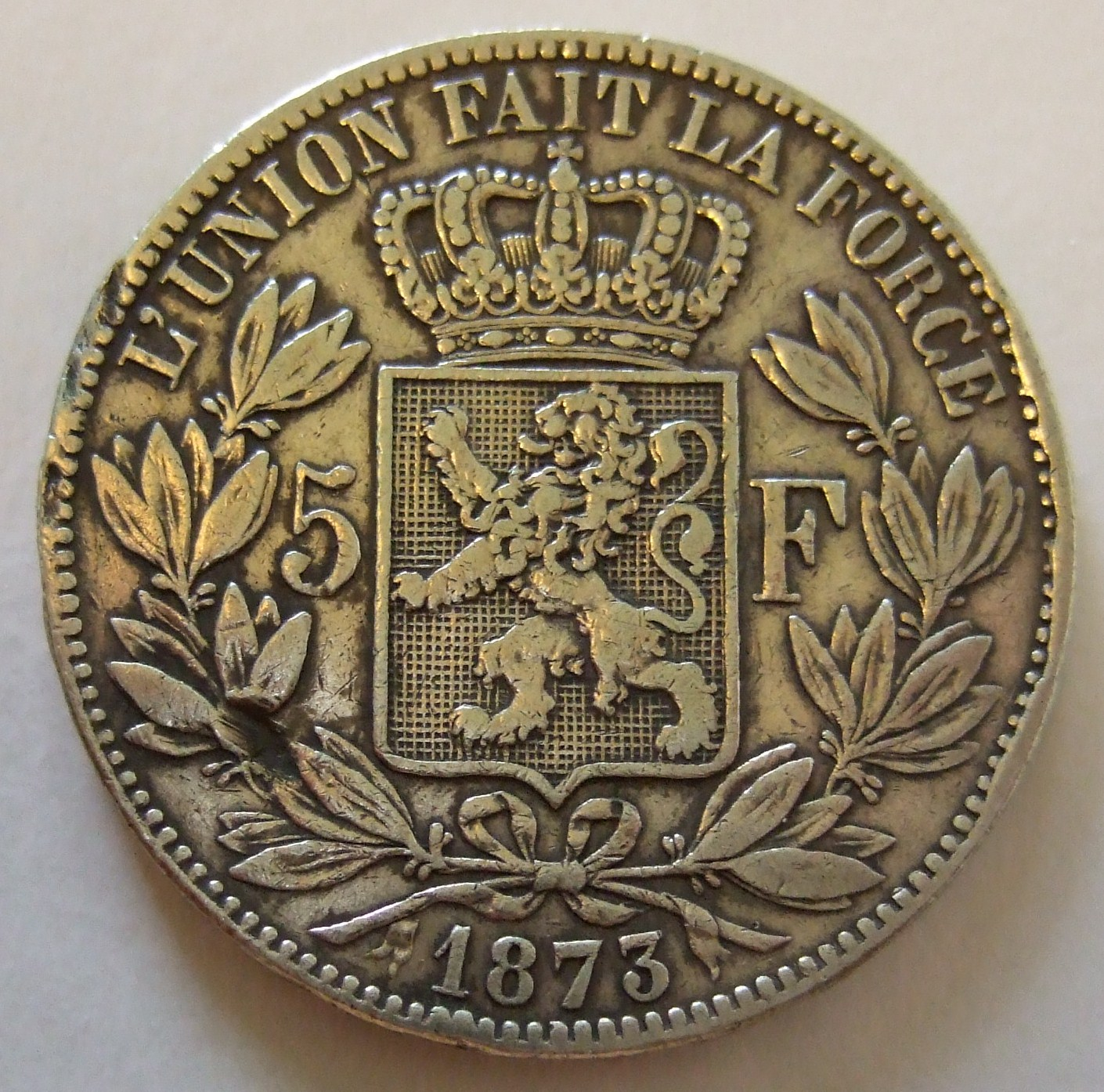 5 franc of Belgie